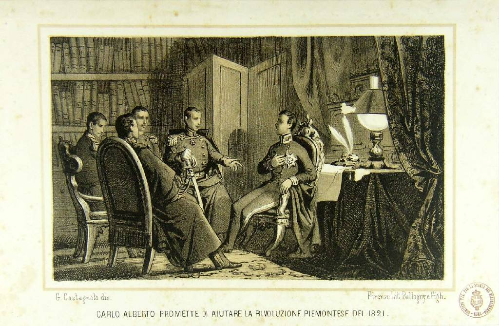 Carlo Alberto di Savoia is committed to supporting the riots of 1821.